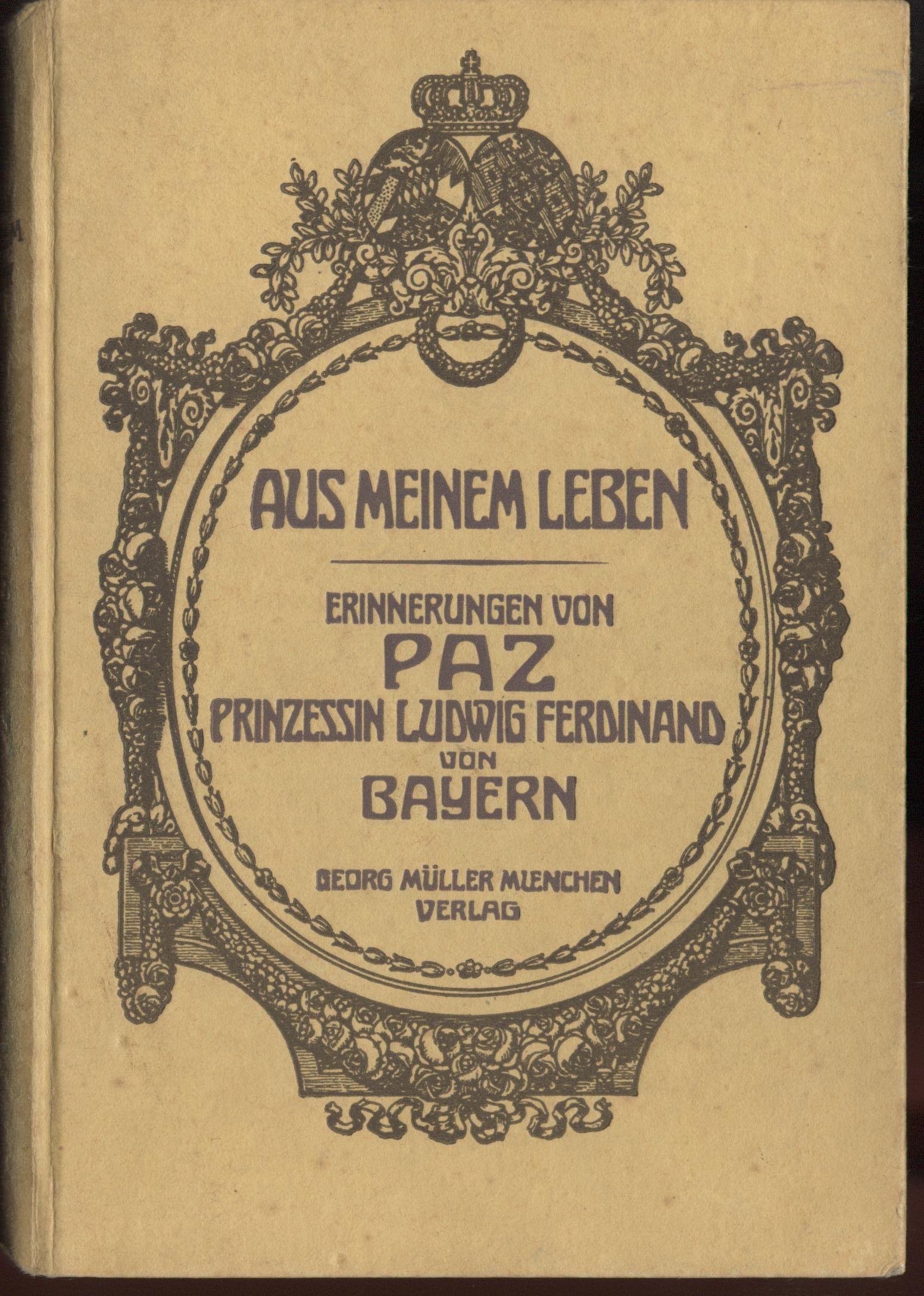 Infanta María de la Paz of Spain, died in 1946 in Nymphenburg